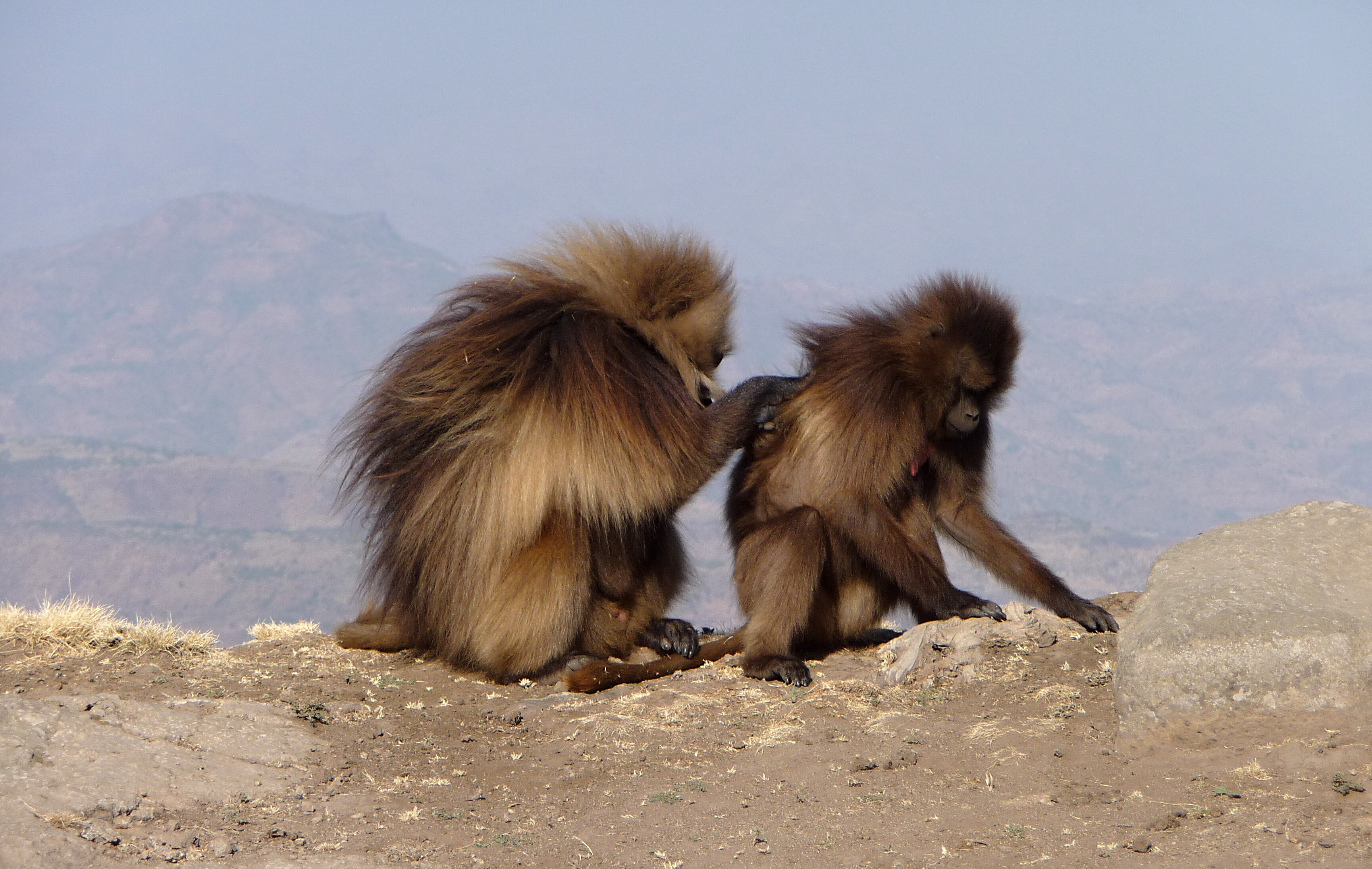 Two gelada baboons in the Simien Mountains (Amhara Region, Ethiopia).